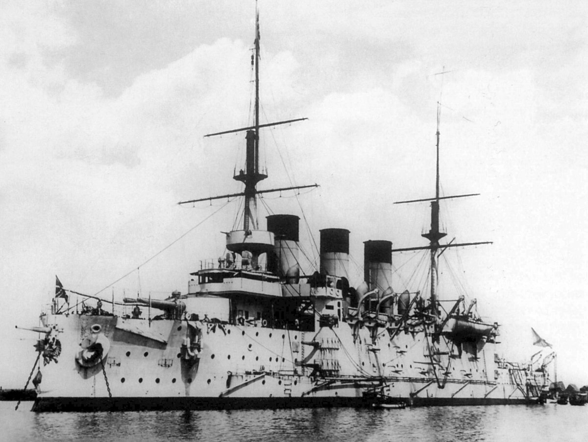 Oslyabya Imperial Russian Battleship (12674 tonns). Published by P.Apostol, 59. Taken before 1954, according to Russian copyright law is Public Domain.